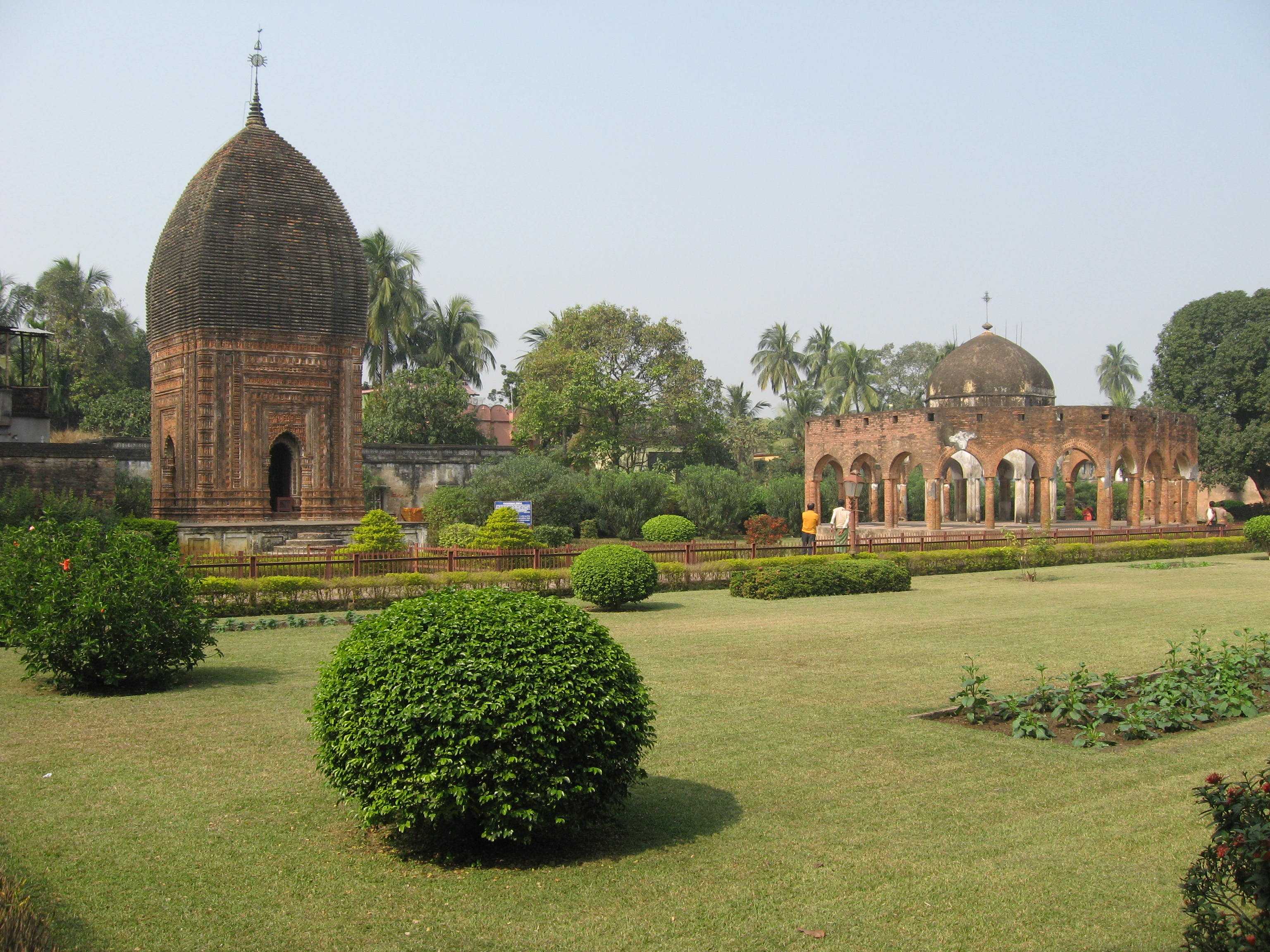 Kalna (Bengali: কালনা) is a city and a municipality and subdivision in Bardhaman District in the Indian state of West Bengal. It is situated on the western bank of the Bhāgirathi. The town is more popularly known as Ambika Kalna, named after a very popular Deity of Goddess Kali, Maa Ambika. It has numerous historical monuments such as the Rajbari (the palace) and the 108 Shiva temples. The town of Kalna, is 60 km. from Bardhaman, the district headquarter.